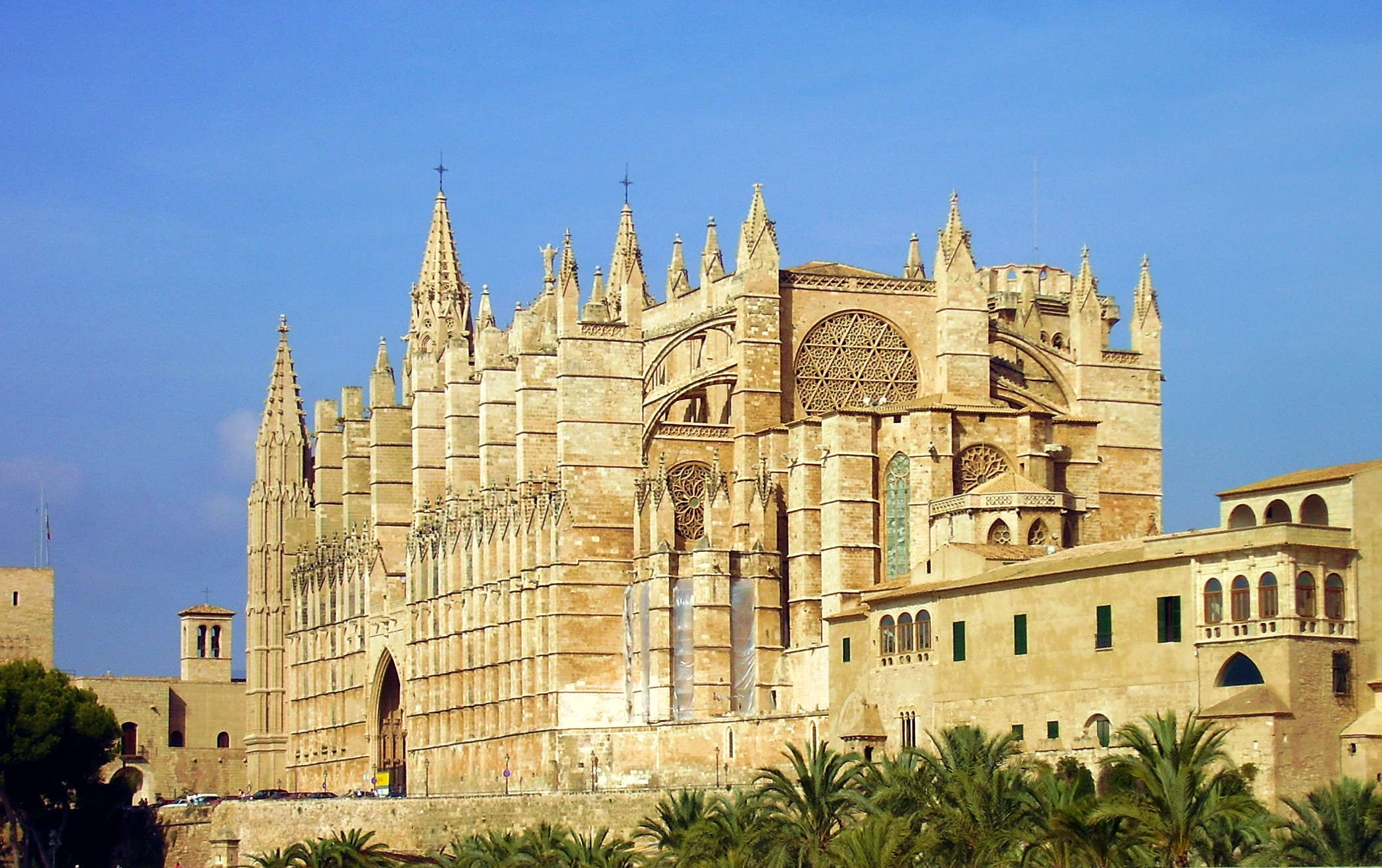 La Seu (Cathedral of Palma) seen from Parc de la Mar, notice the works at Saint Peter's Chapel (new glasses and walls realized by the artist Miquel Barceló), Palma.